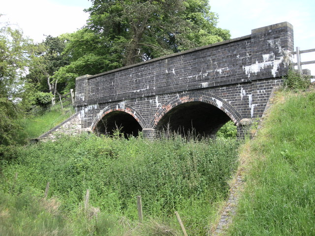 Bridge carrying Station Road over the former route of the Stratford-upon-Avon and Midland Junction Railway, just west of the site of its former station at Helmdon, Northamptonshire